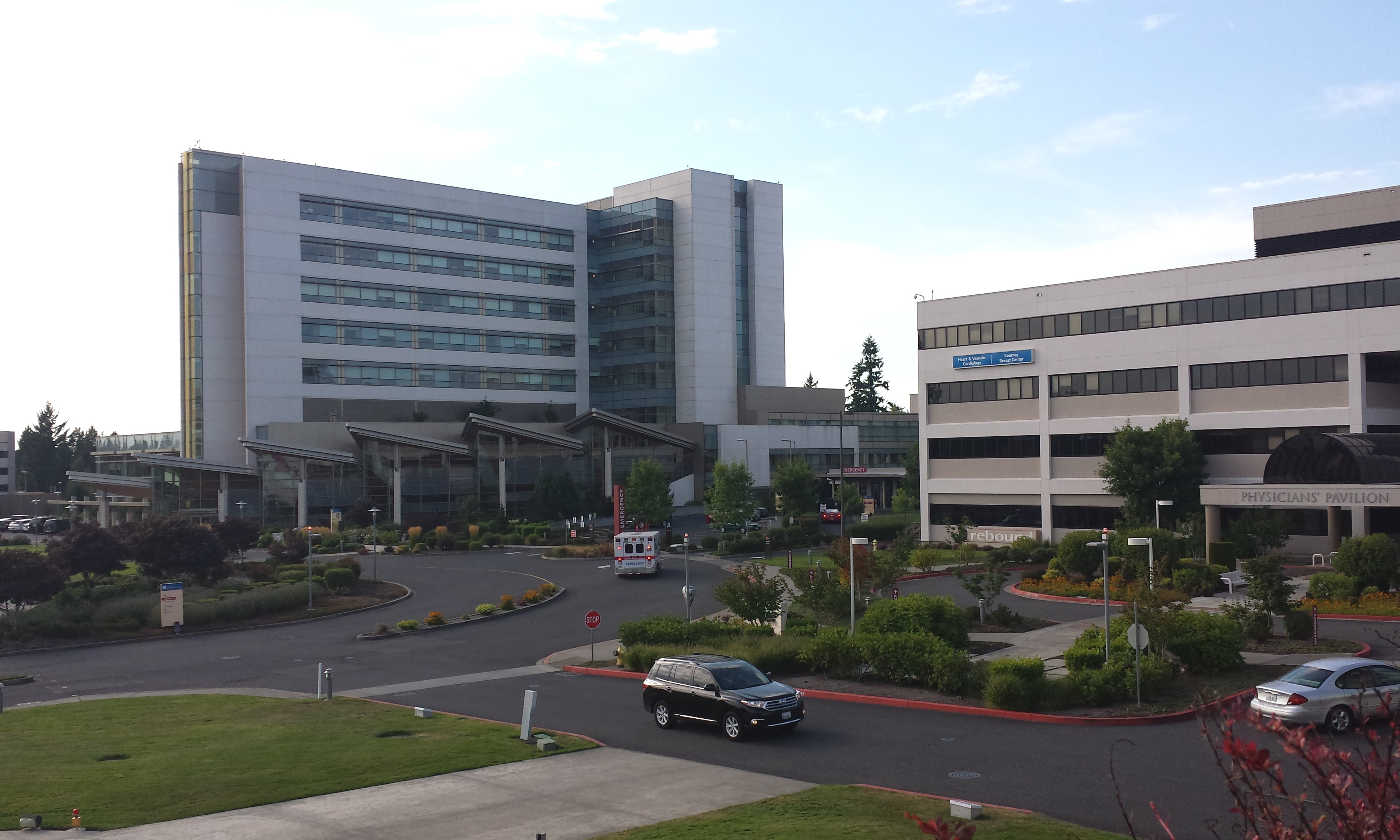 This is a photograph of PeaceHealth Southwest Medical Center, located in Vancouver, in the US State of Washington.